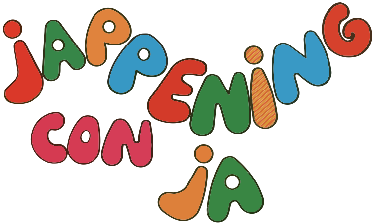 Logo del programa de televisión chileno Japenning con ja que apareció en el Disco de vinilo "¡Ríe!" de 1978.